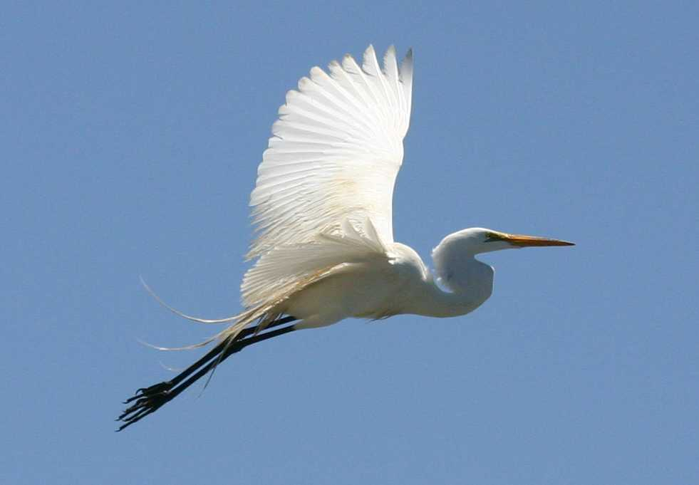 Great Egret, Morro Bay, CA Creative Commons use note! to and at and at